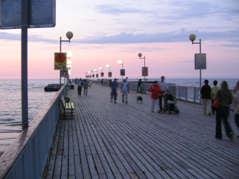 Quay in Kolobrzeg.